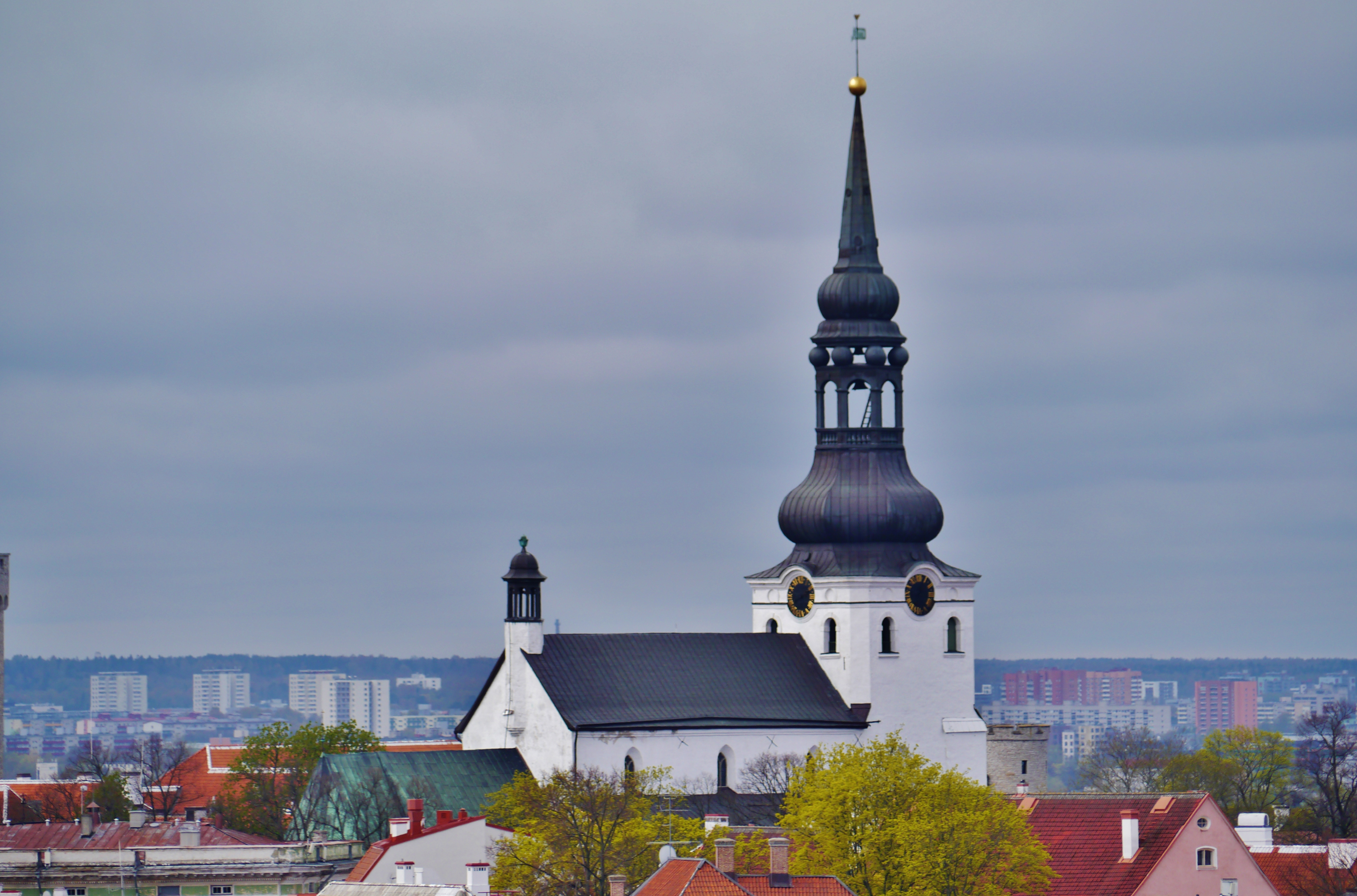 View from St. Olaf's Church to St. Mary's Cathedral, Tallinn, Estonia